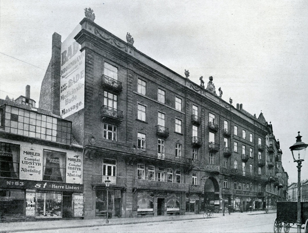 The Westend complex at Vesterbrogade 65-67 in Copenhagen, Denmark